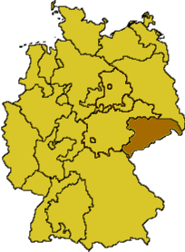 Area of the Evangelical-Lutheran Church of Saxony (Evangelisch-Lutherische Landeskirche Sachsens)